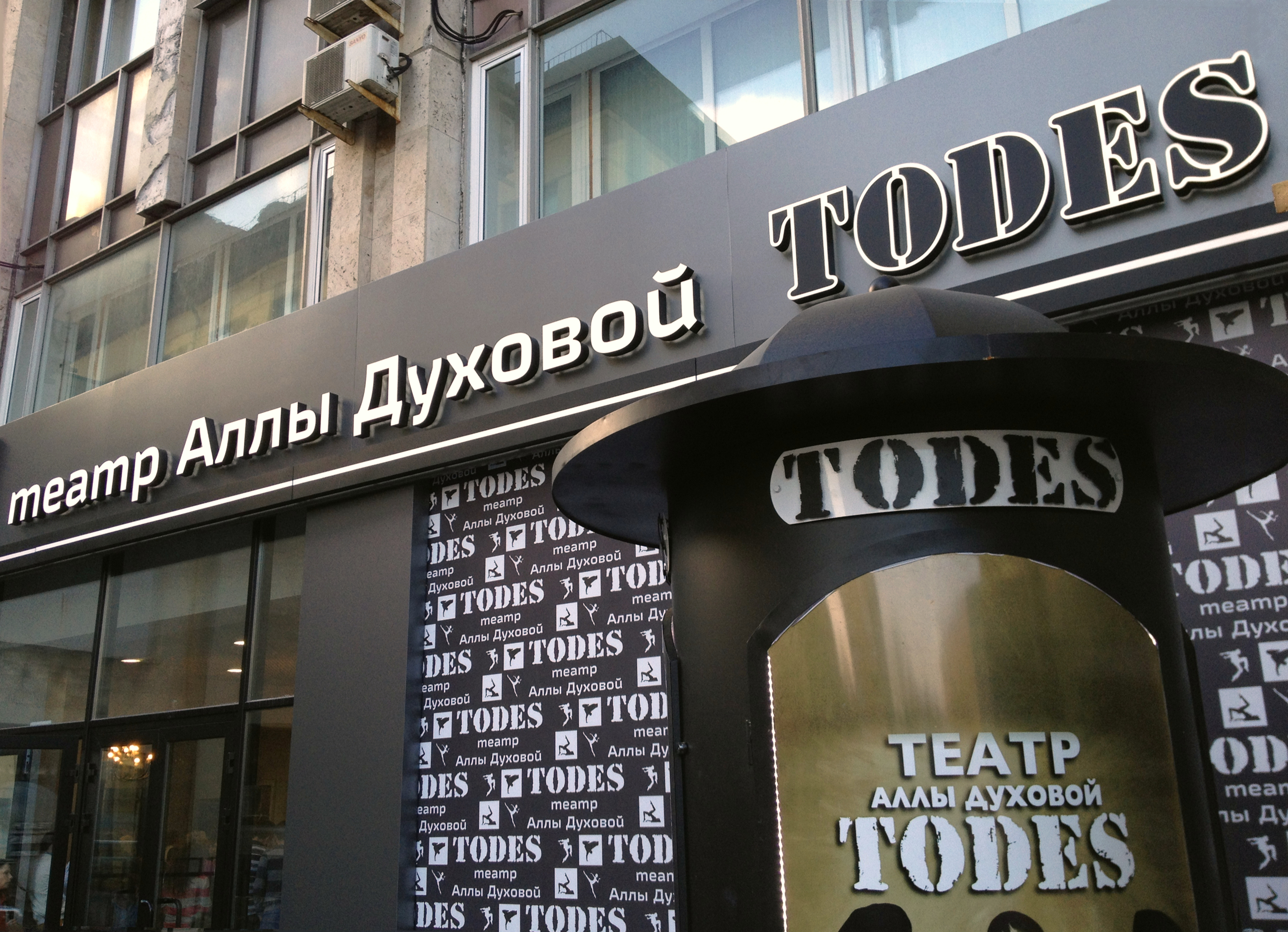 Alla Dukhova`s dance theatre TODES, Prospect Mira, 95, b. 1 in Moscow